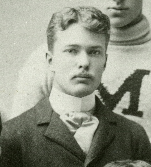 Photograph of the Royal T. Farrand